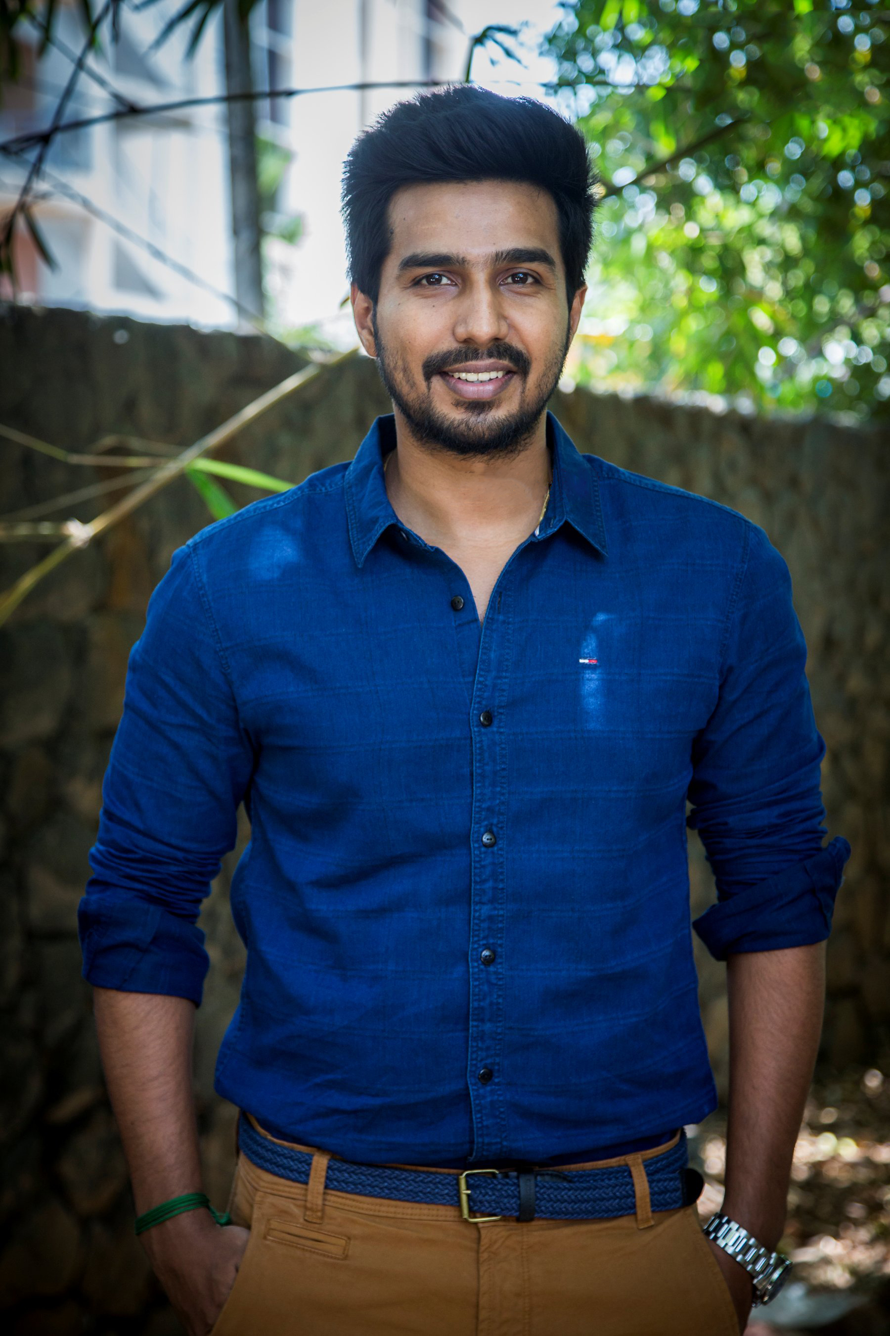 Vishnu Vishal at Velainu Vandhutta Vellaikaaran Press Meet